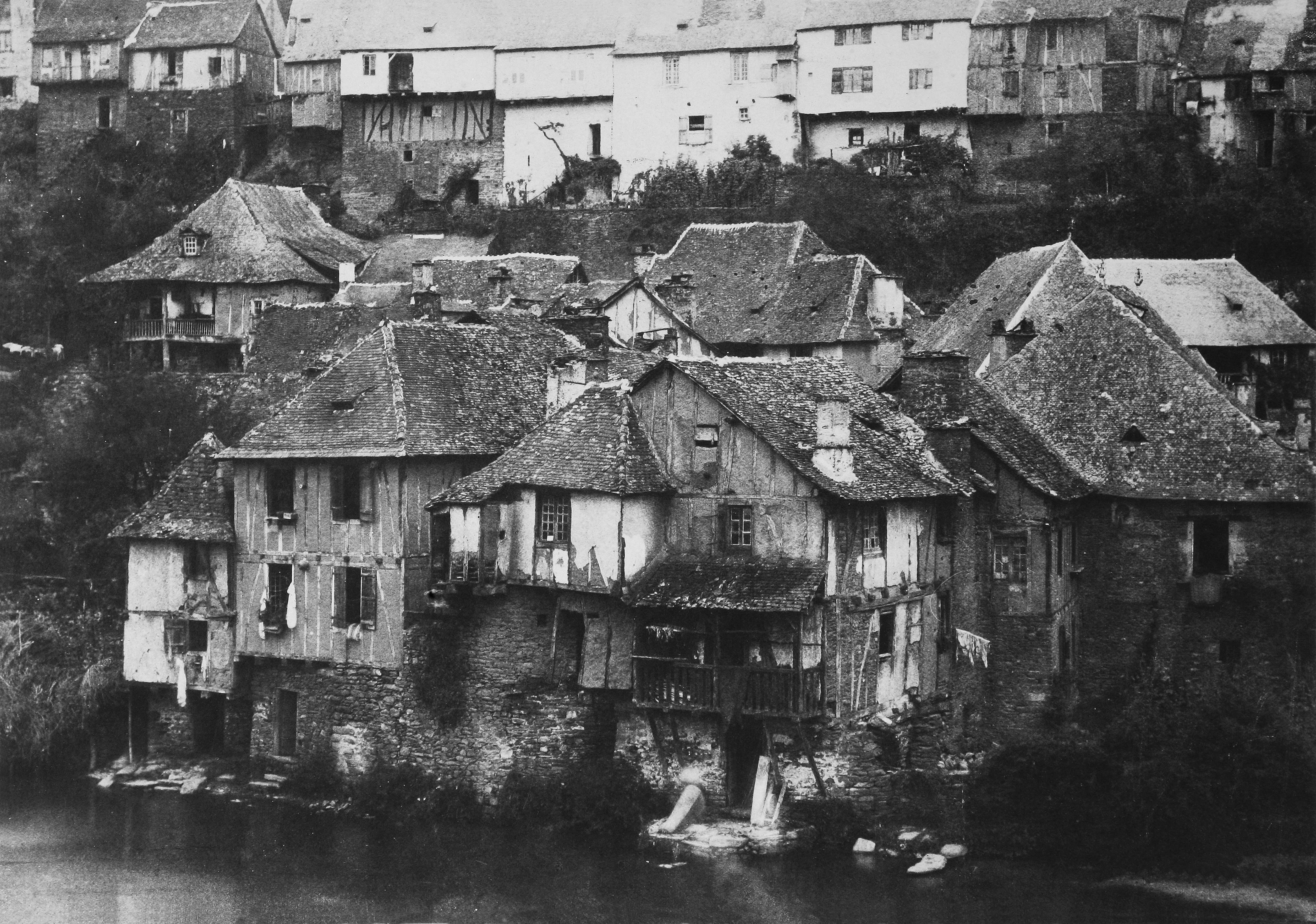 Village by waterfront by Gustave Le Gray. Signed